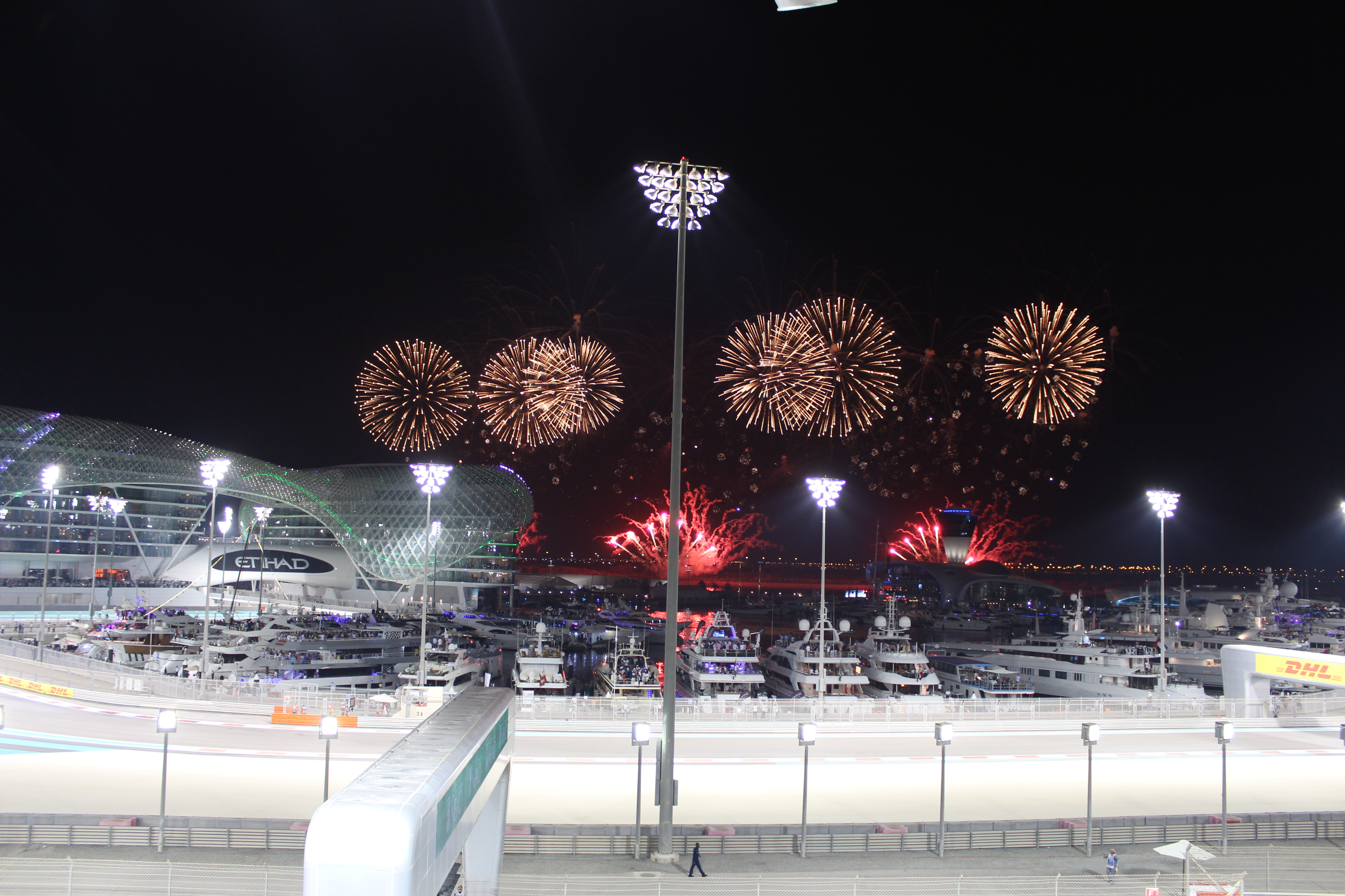 Firework at the 2015 Abu Dhabi Grand Prix